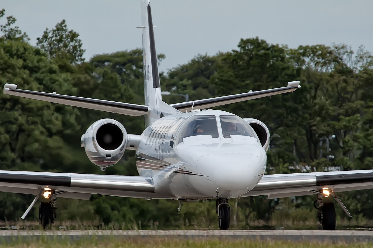 EC-KJR - 34304B - Sagolair Transportes Ejecutivos - Cessna 551 Citation IISP (551-0412)